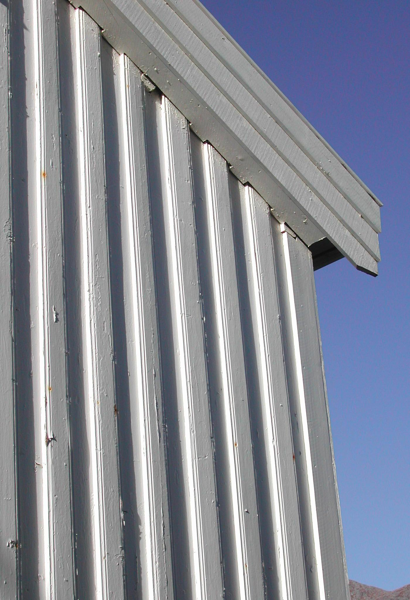 profiled wooden wall boards